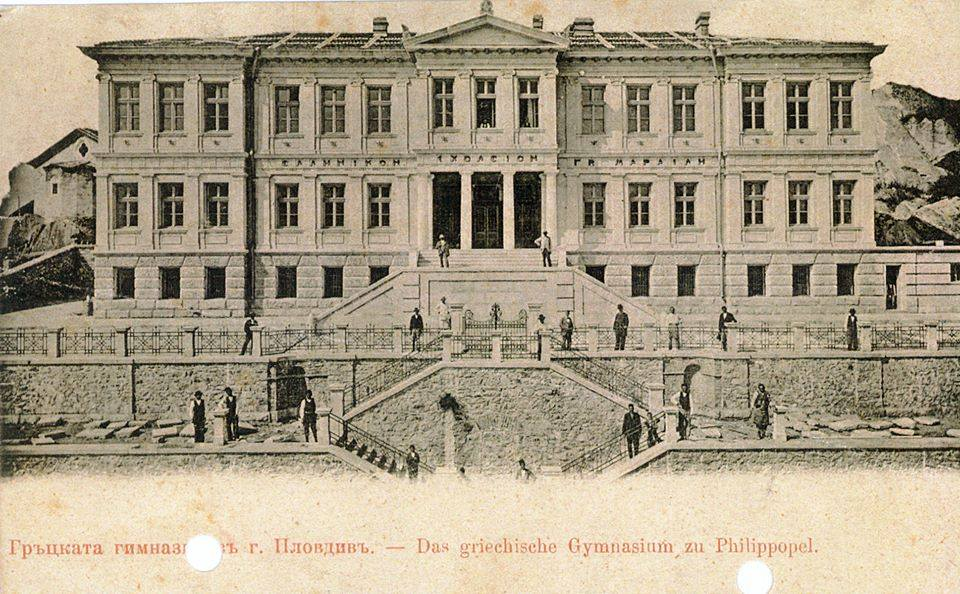 Greek High School in Plovdiv